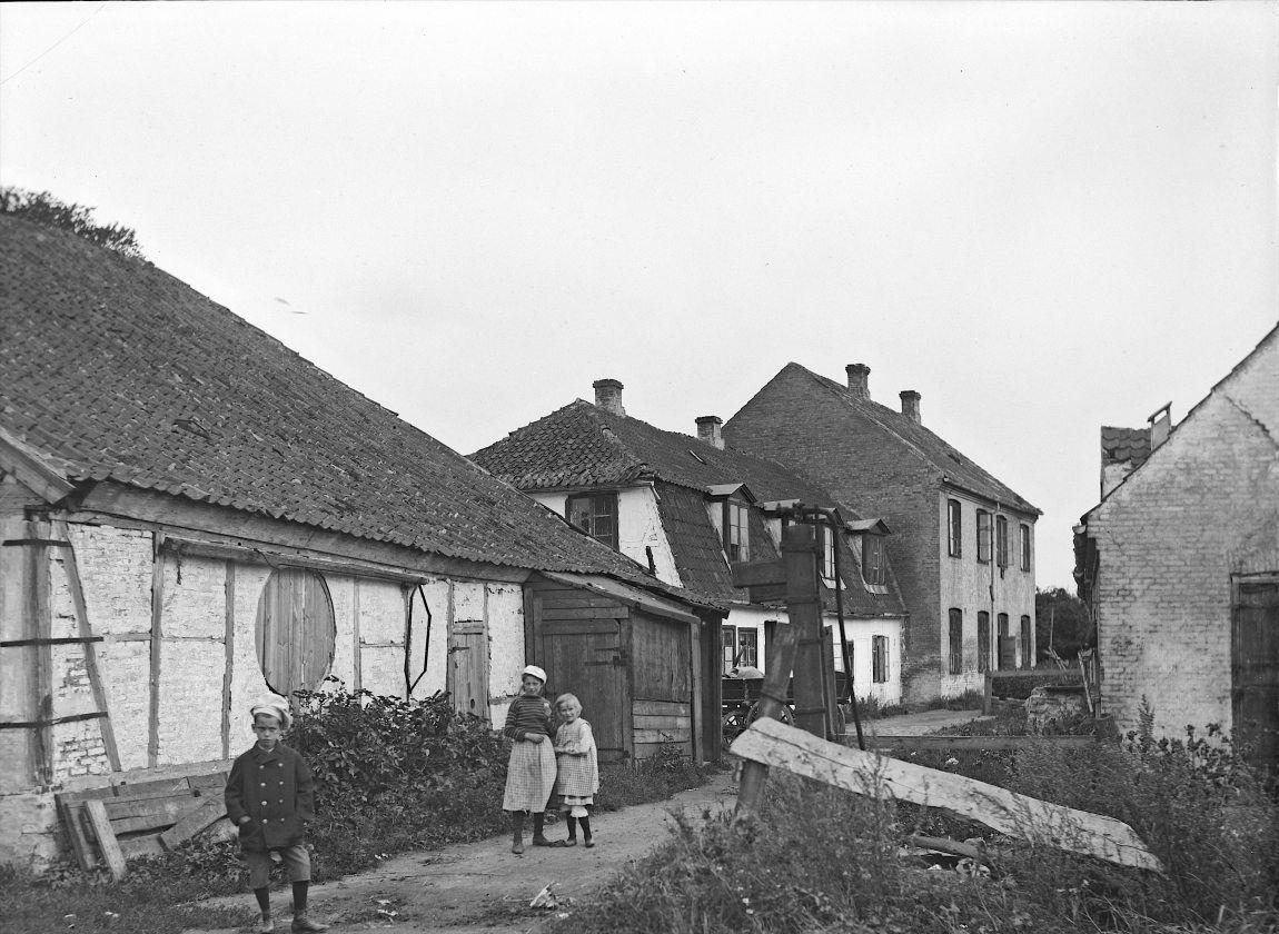 Grundtvigs Højskole 1907